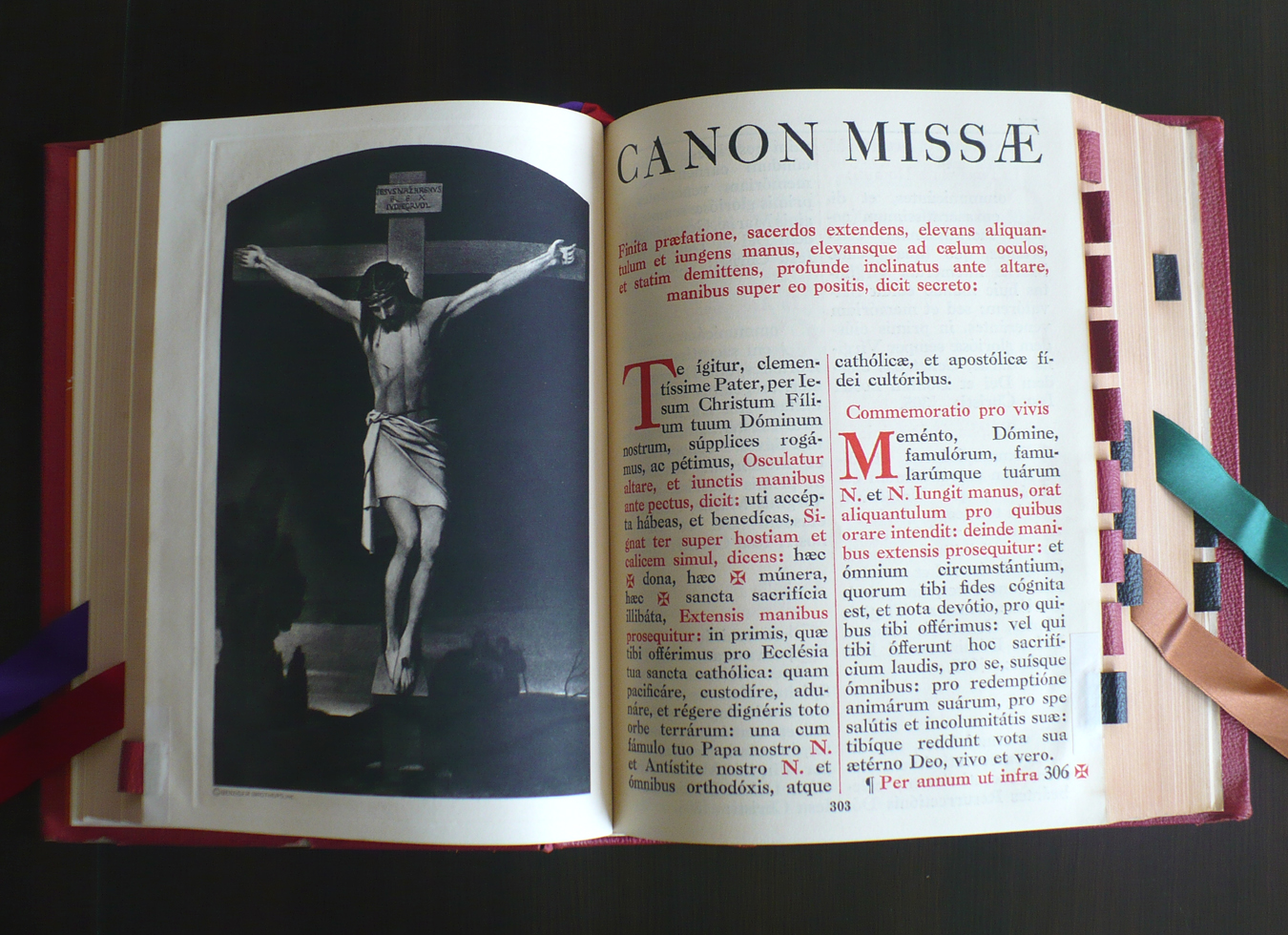 Roman Missal (editio tipica 1962) Editia Benzinger Brothers